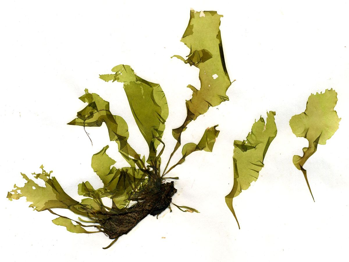 Ulva linza L., herbarium sheet. Collected 1985-09-10, Heligoland (Germany), epiphytic on Fucus, lower Eulitoral